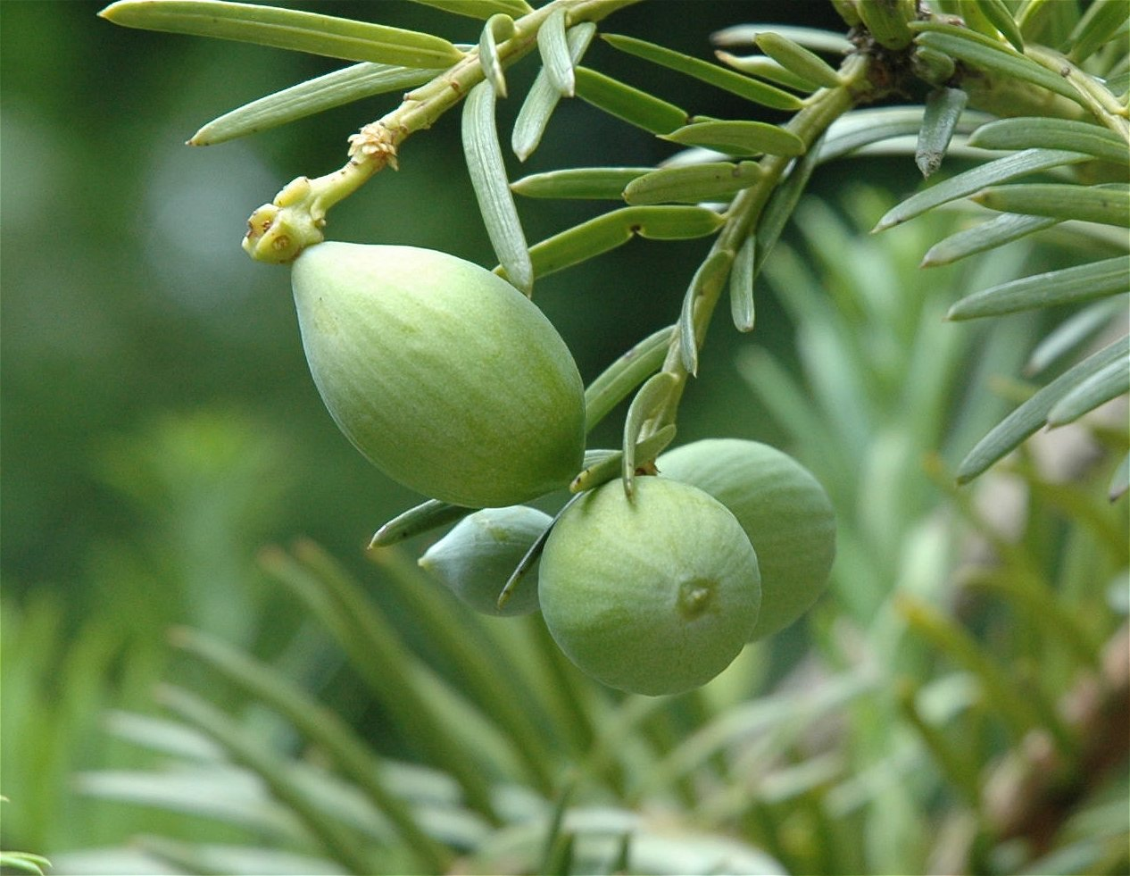 Cephalotaxus harringtonii